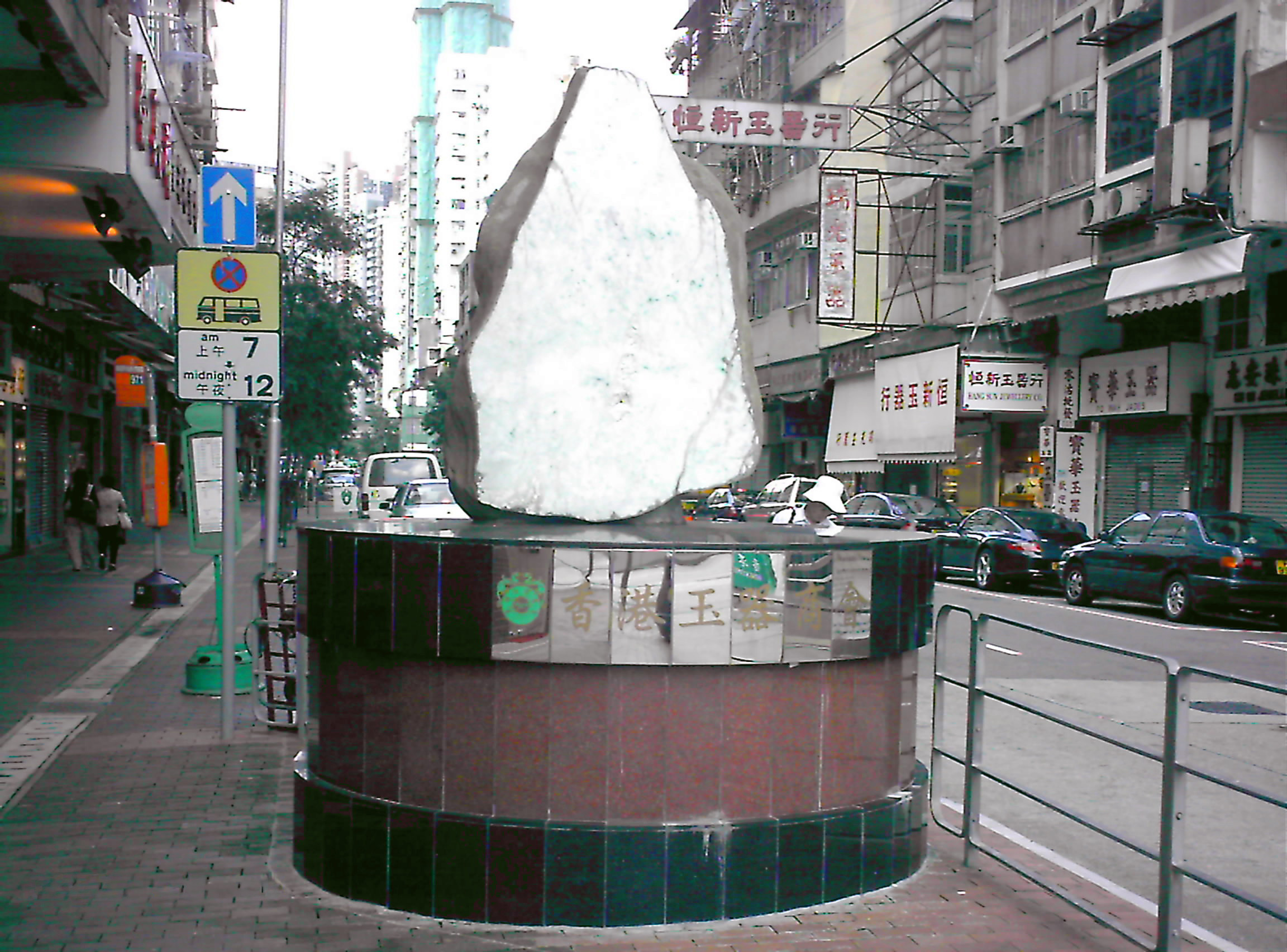 Monument at the cross between Canton Road and Jordan Road, Kowloon, Hong Kong. 中文（香港）: 香港玉器商會在九龍的廣東道及佐敦道交界建立的紀念碑。